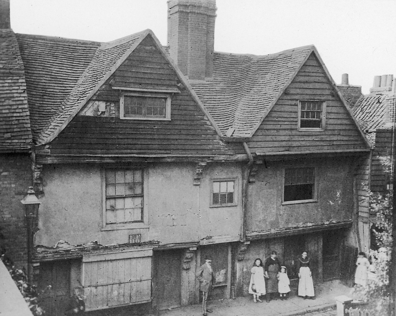 Sir Walter Raleigh's house at Blackwall, London. The house was demolished during construction of the Blackwall Tunnel. Reproduction ID: H0657 Maker: Unknown Date: About 1890